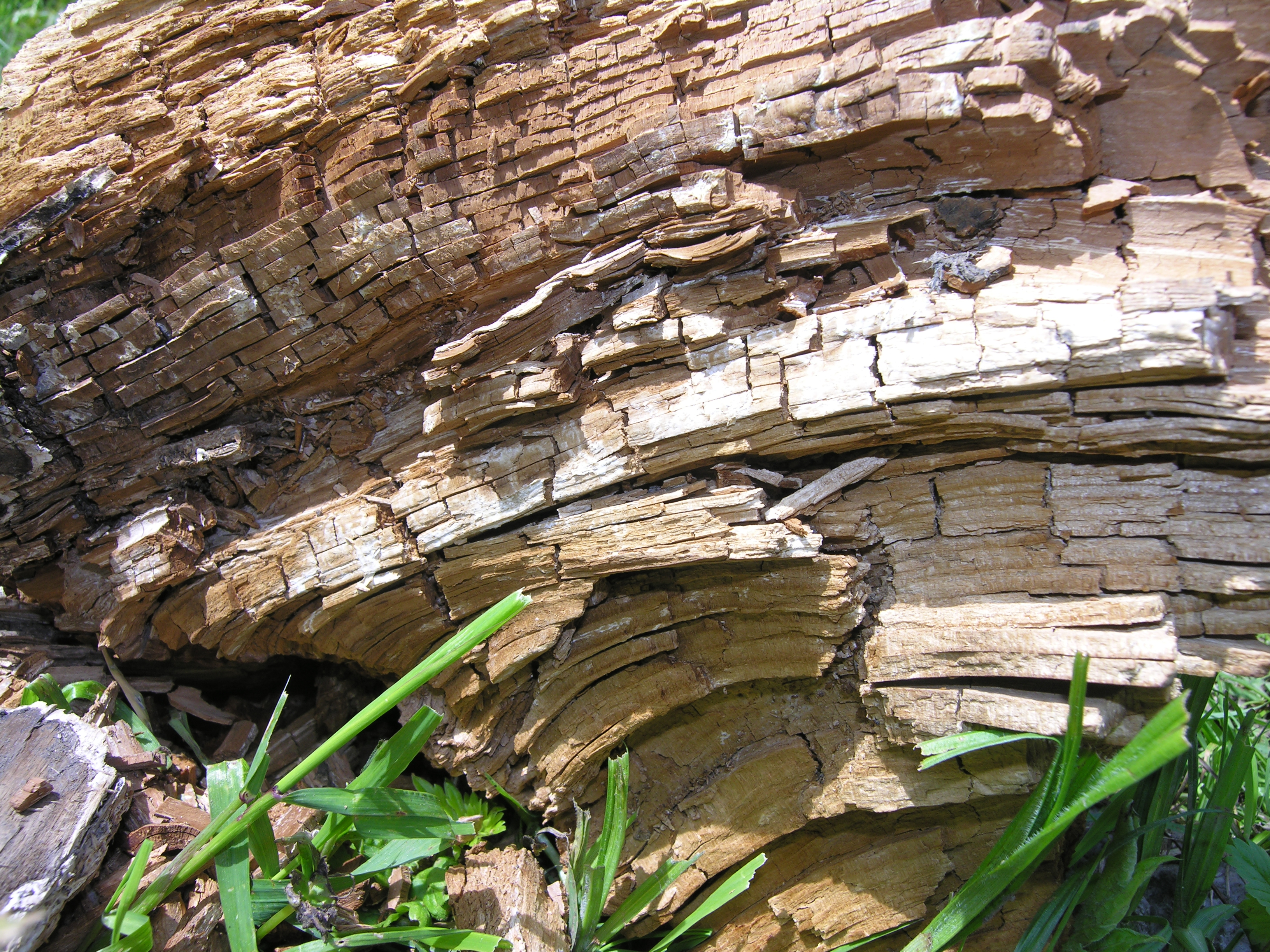 A piece of the rotten wood, great as screen background. Taken in Swiss alps.